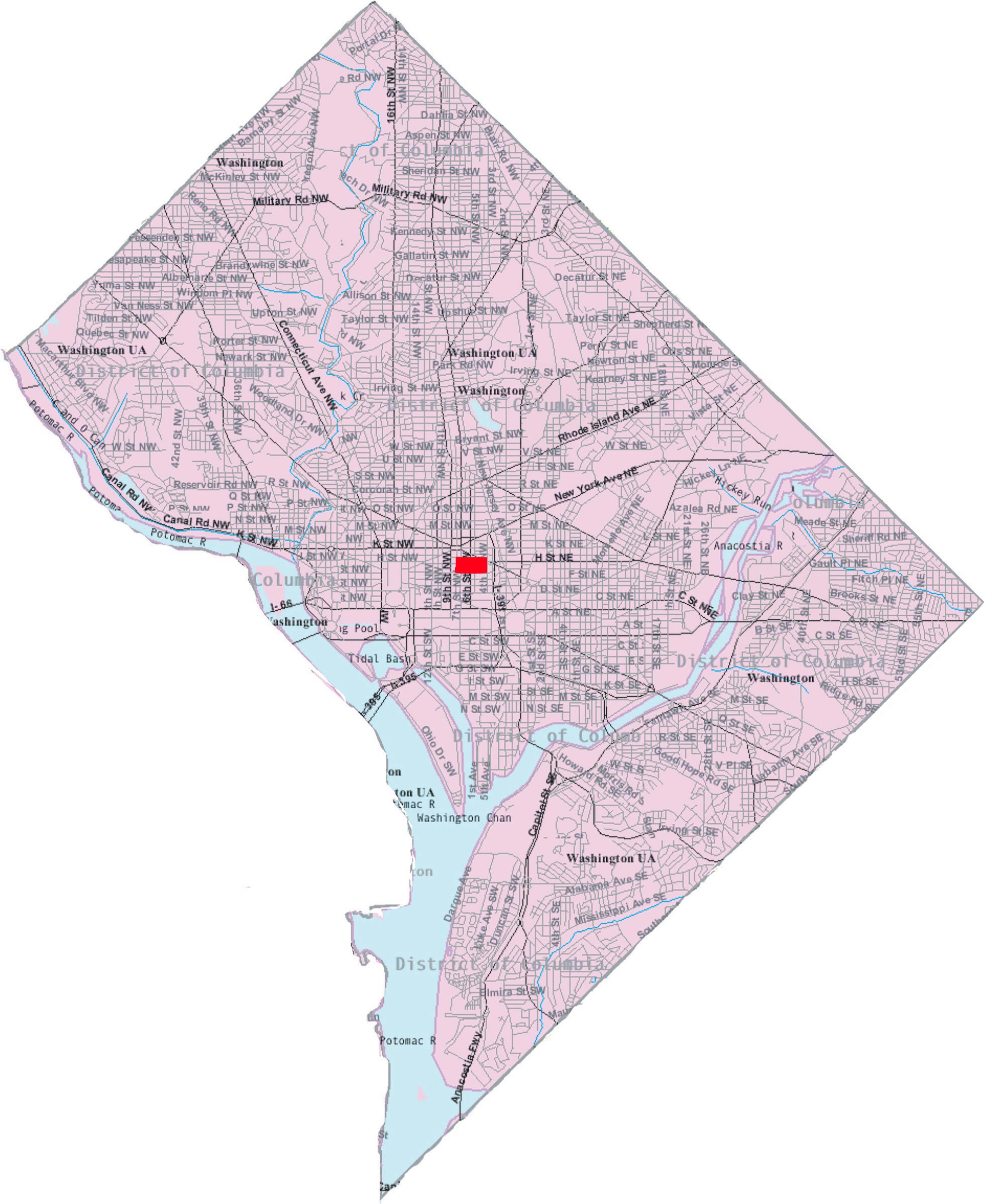 This image is a modified version of a self-generated reference map from the U.S. Census Bureau's American Factfinder at by Wikipedia user Msclguru.